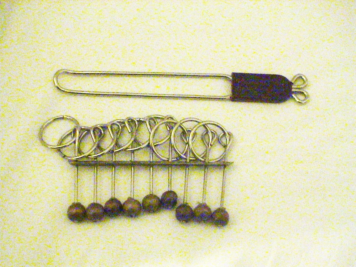 brightened original dark picture